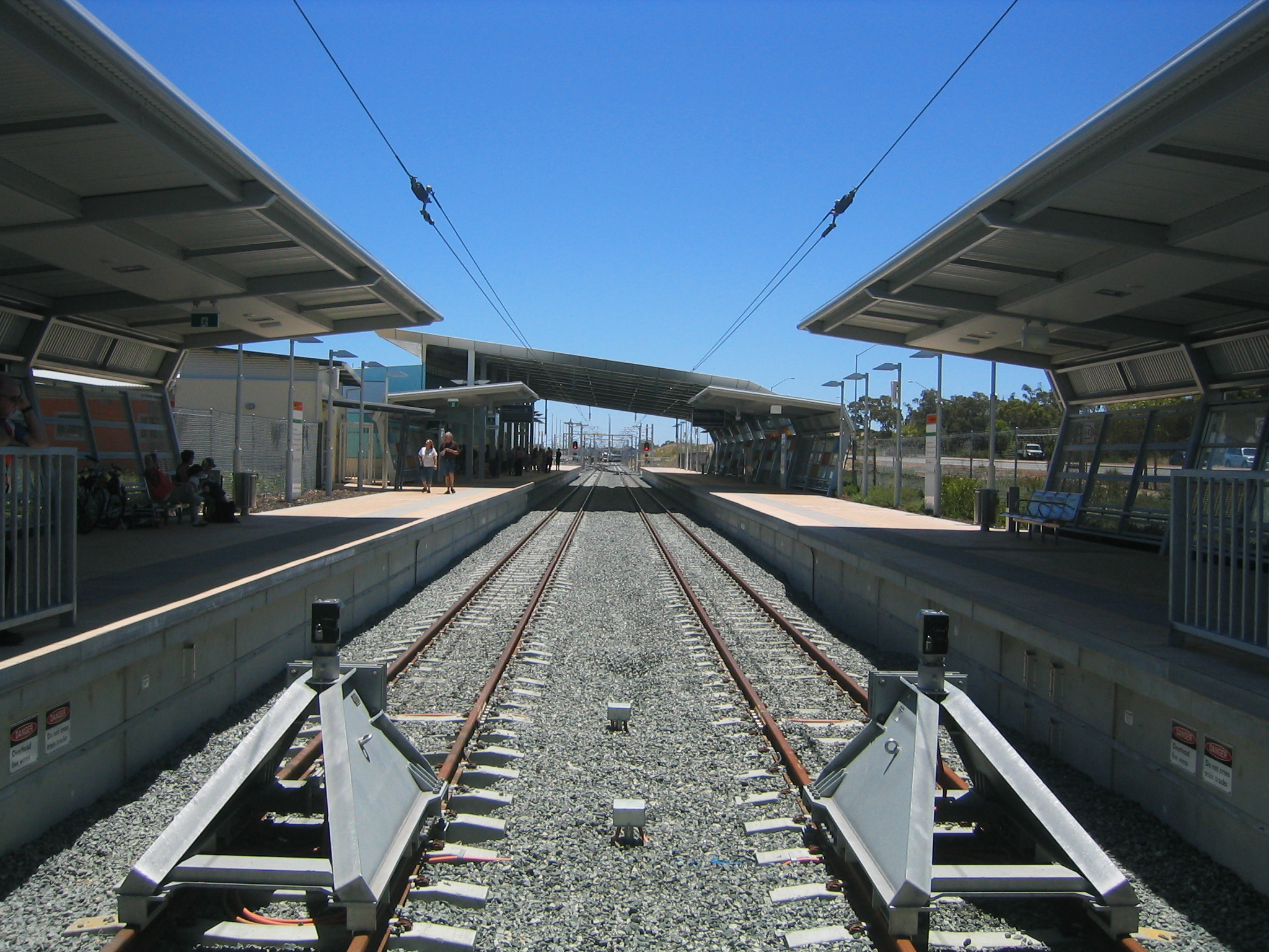 The platforms of Mandurah Station, taken from the Mandurah end of its station.